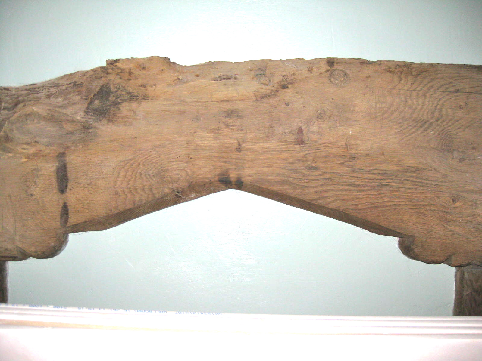 Cilthriew, Kerry, (Montgomeryshire)